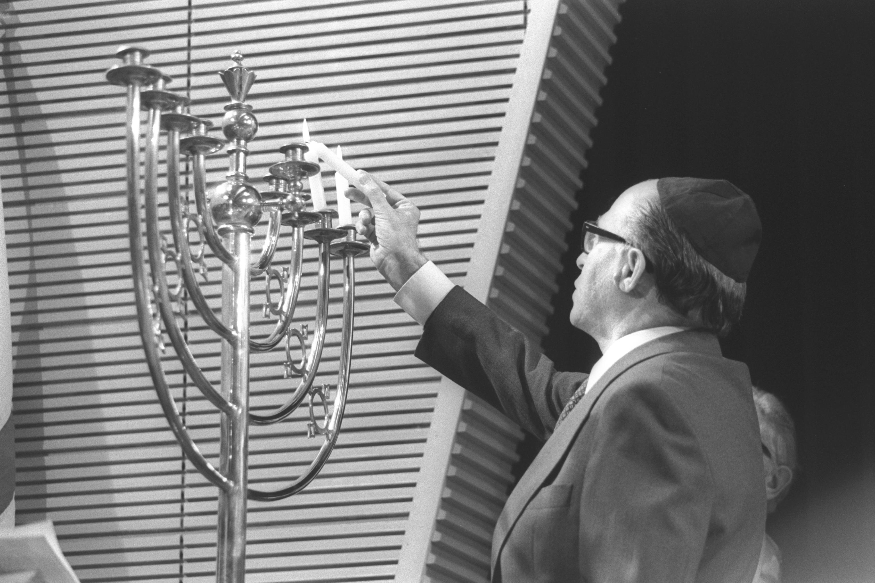 Menahem Begin lighting the Hanukkah candles in St John's Wood Synagogue, London, 1 December 1977